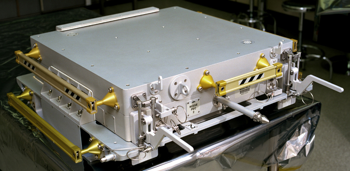 Closed MISSE Tray